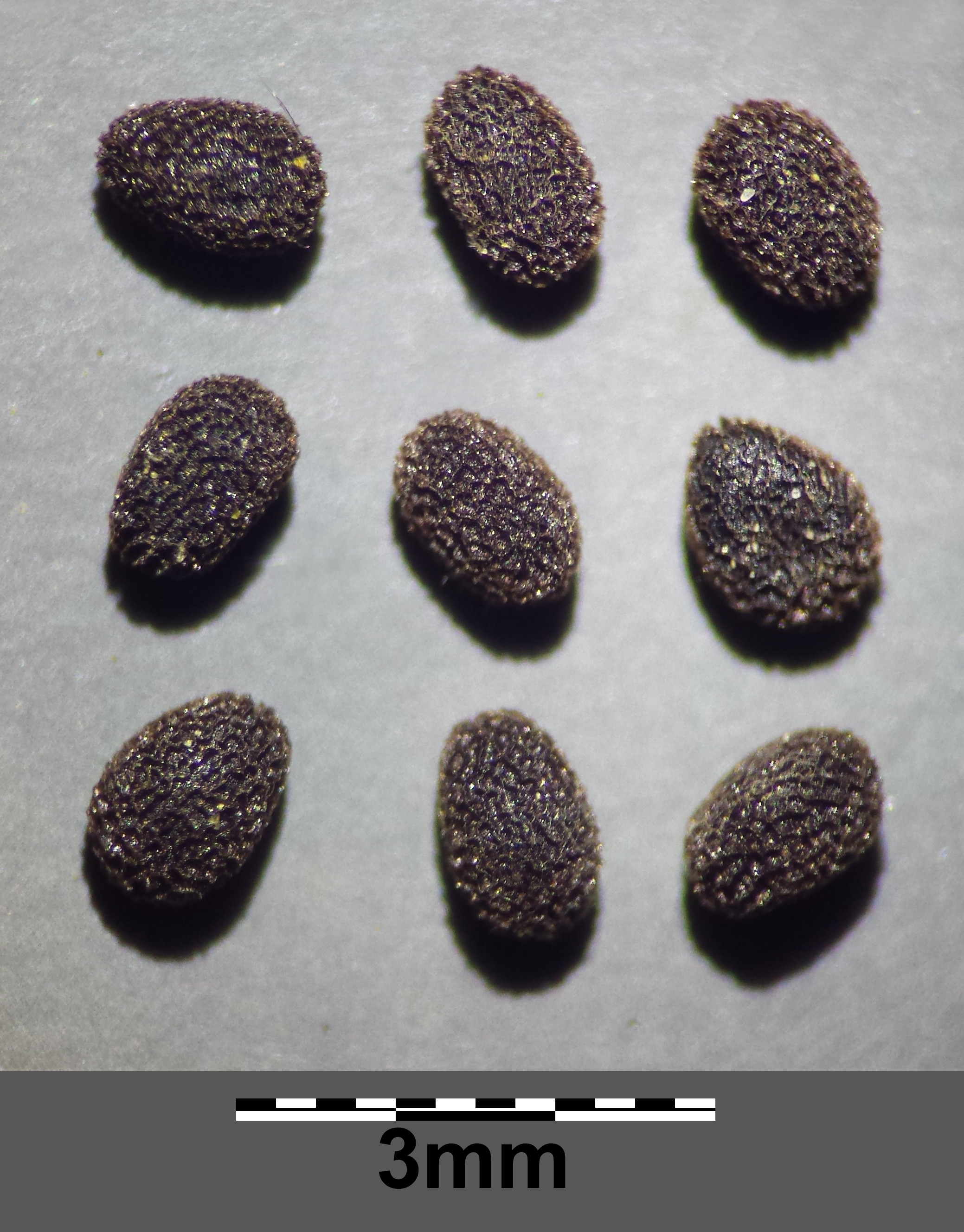 Seeds Taxonym: Kickxia spuriass Fischer et al. EfÖLS 2008 ISBN 978-3-85474-187-9 Location: near Michaelibründl at Michelberg, district Korneuburg, Lower Austria - ca. 330 m a.s.l. Habitat: field